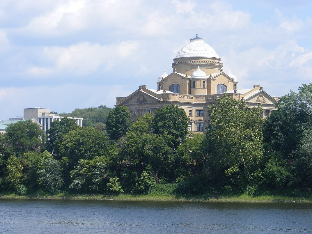 Luzerne County Courthouse from River Commons park, at Wilkes-Barre, Pennsylvania, United States.